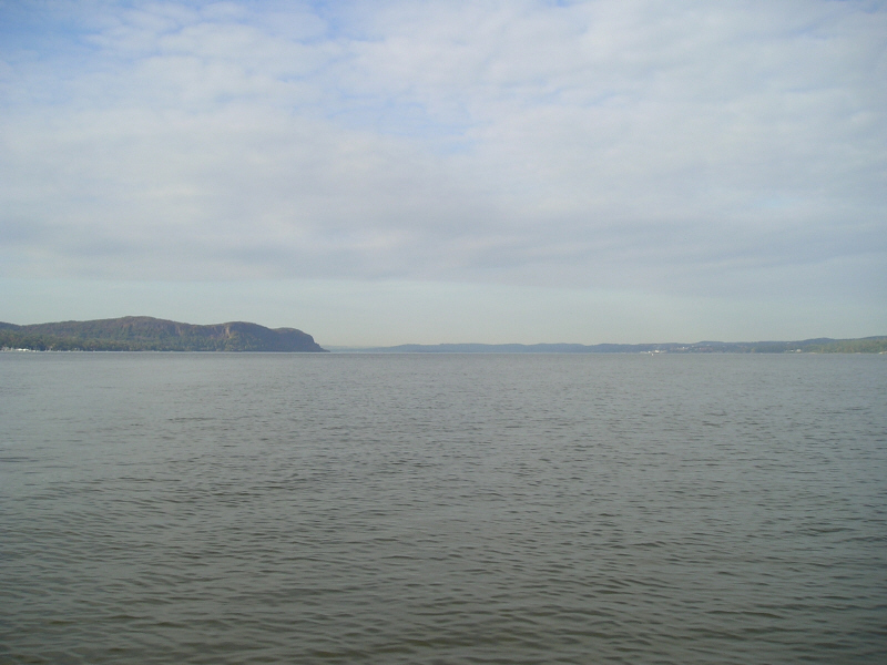 View facing north on the Tappan Zee near Tarrytown. Hook Mountain, part of the Palisades, can be seen in the background along the west bank.